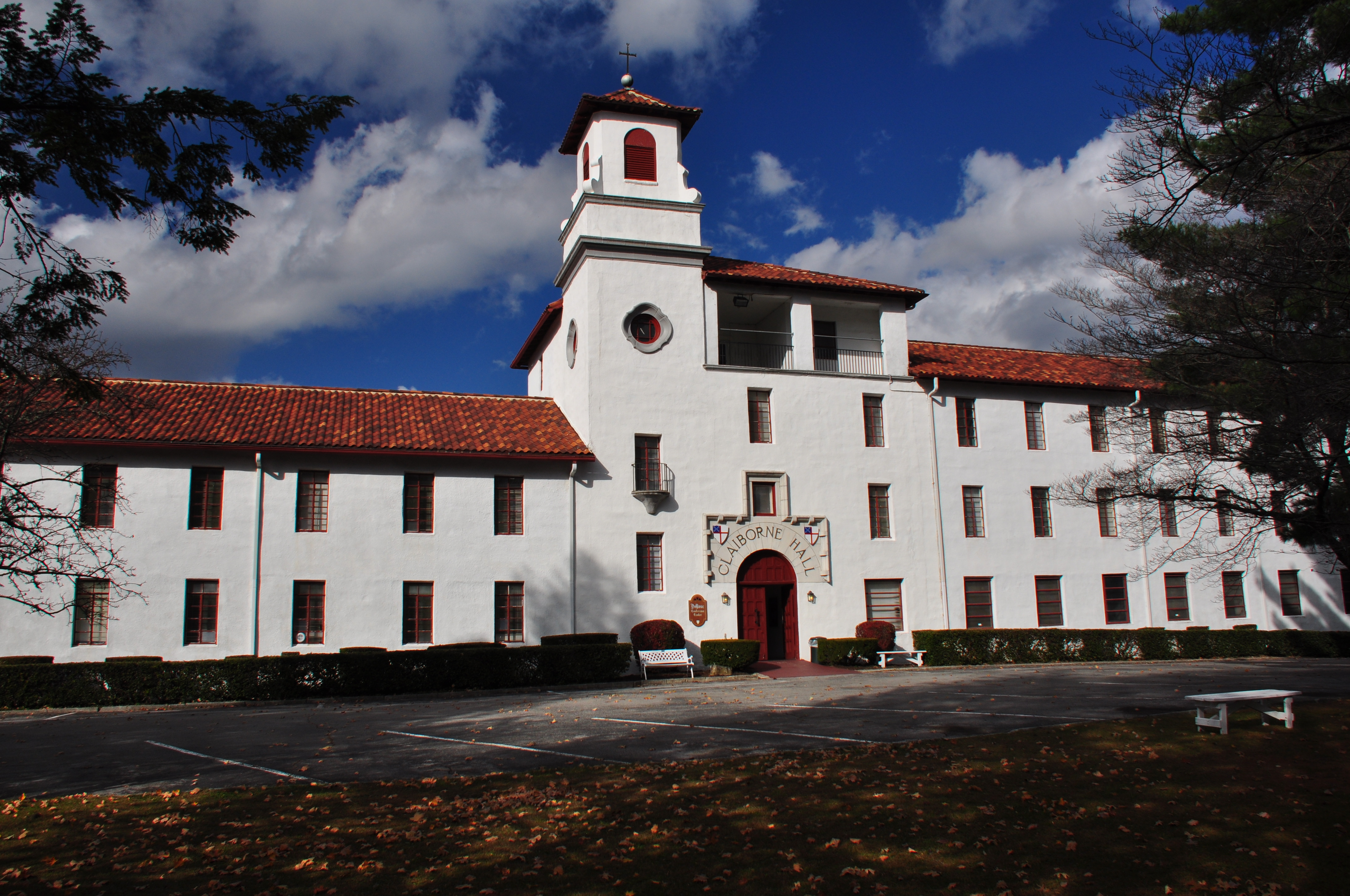 DuBose Memorial Church Training School, Fairmont and College Sts. Monteagle. Currently known as the DuBose Conference Center.